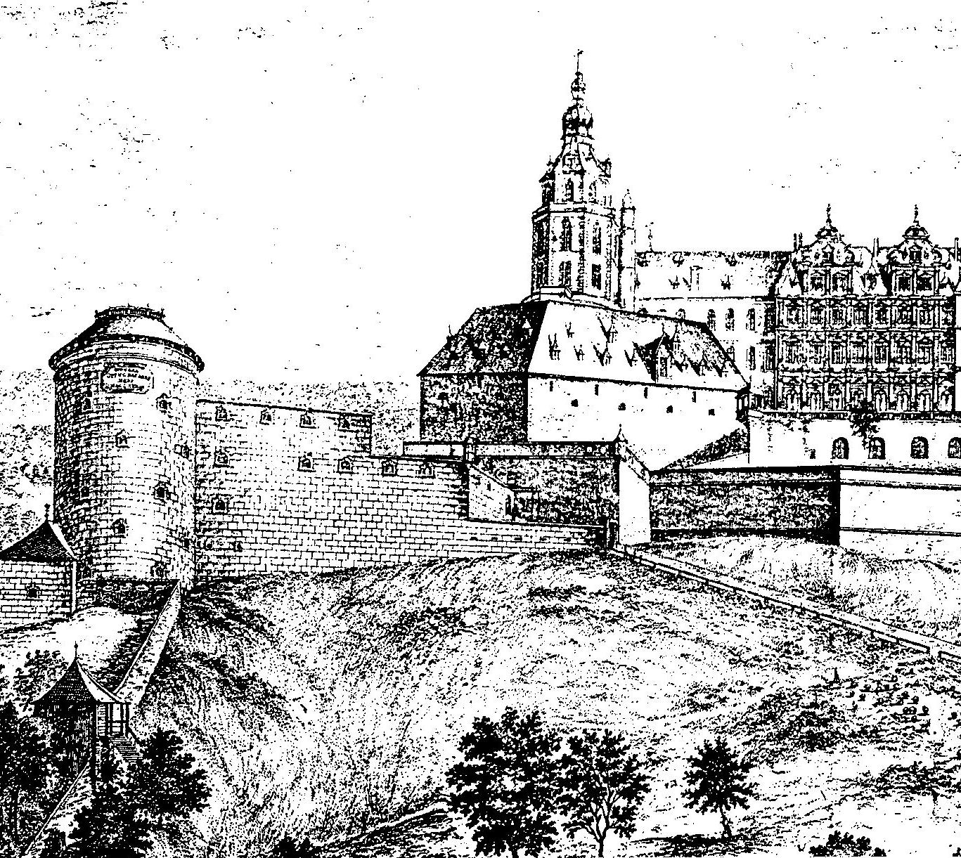 historic views of Heidelberg, Germany